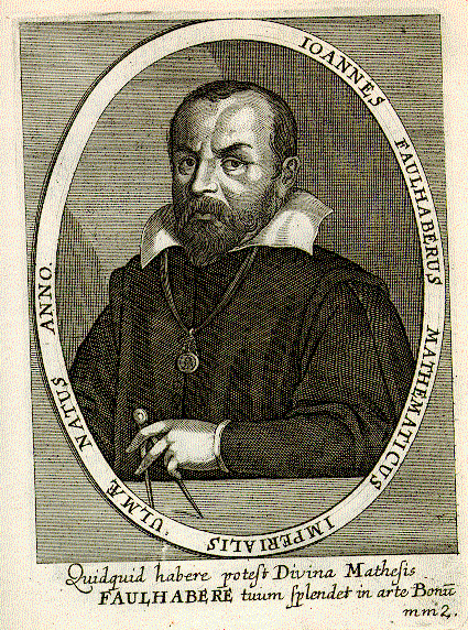 Portrait of Johannes Faulhaber (1580-05-05; 1635-09-10), a German mathematican and engineer.